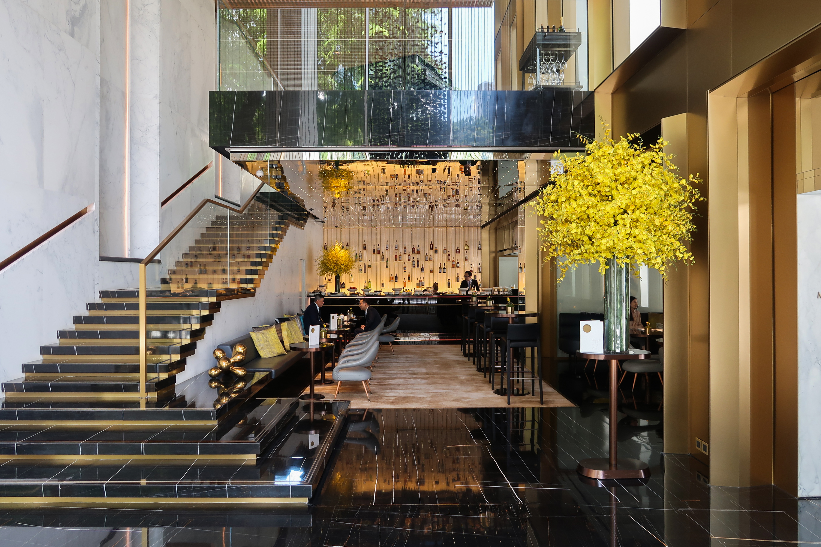 The Murray Murray Lane